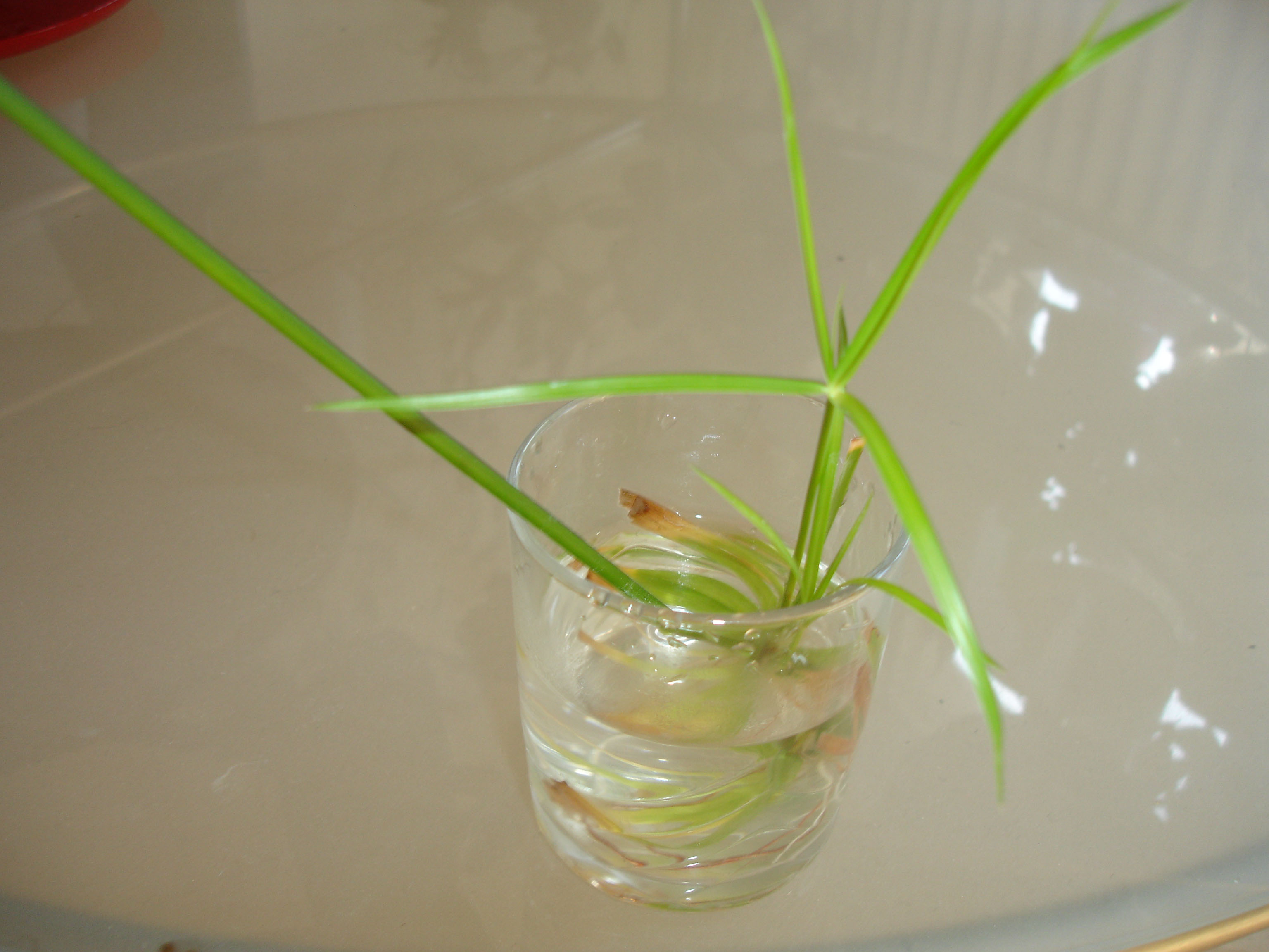 The cutting was put in a water glass. A new plant is born